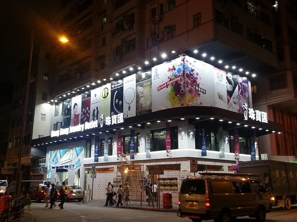 Night view of HKJO